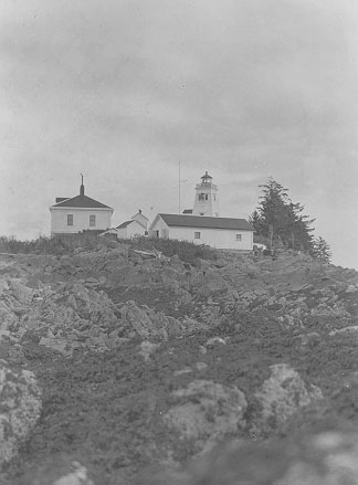 Public Domain statement here; Original 1904 Guard Island Light